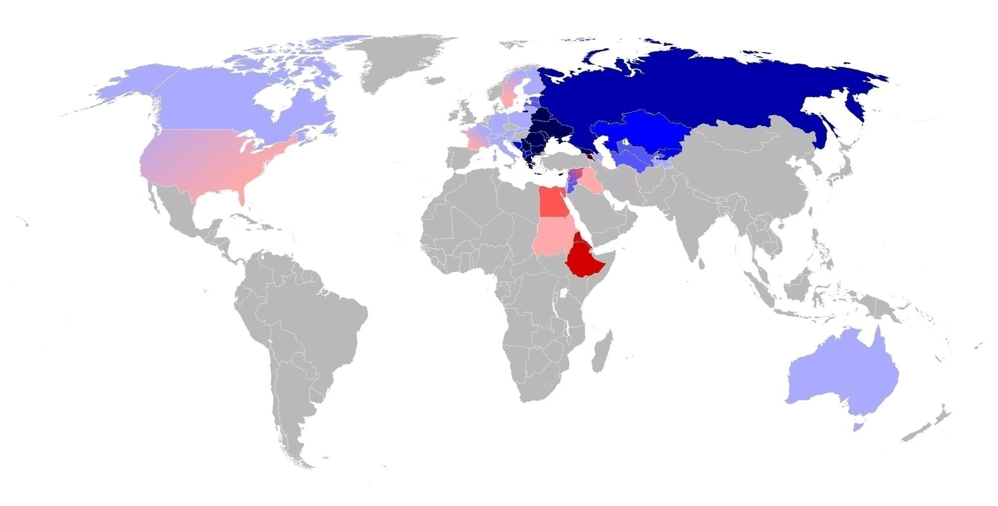 Comparative distribution of Eastern Orthodoxy and Oriental Orthodoxy in the world by country Eastern Orthodoxy Main religion (more than 75%) Main religion (50% - 75%) Important minority religion (20% - 50%) Important minority religion (5% - 20%) Minority religion (1% - 5%) Oriental Orthodoxy Main religion (more than 75%) Main religion (50% - 75%) Important minority religion (20% - 50%) Important minority religion (5% - 20%) Minority religion (1% - 5%)